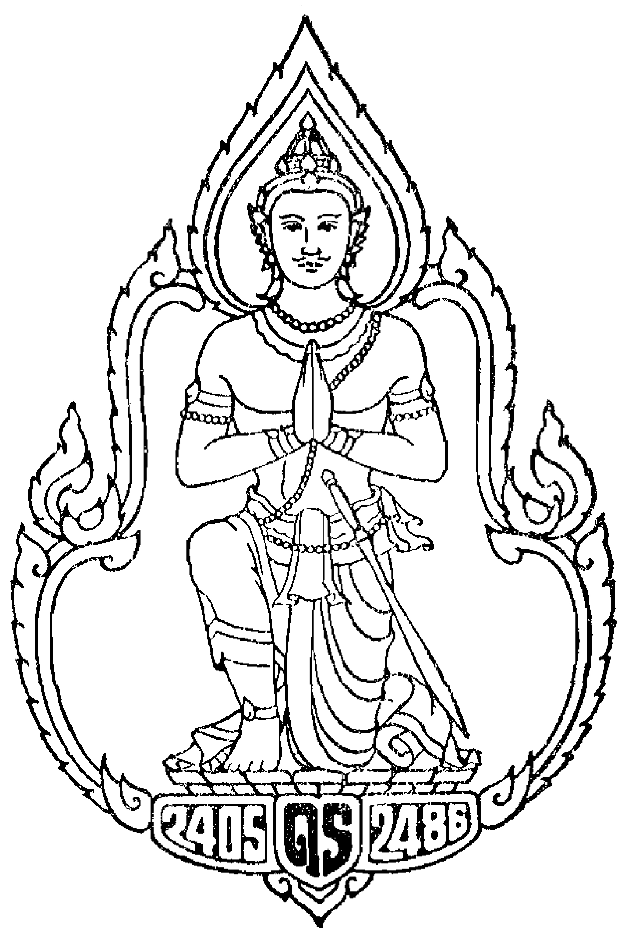 Personal Seal of Prince Damrong Rajanubhab of Siam, depicting a god putting his palms together in salute and carrying a sword, and featuring the initials of the Prince, "ดร" (DR).